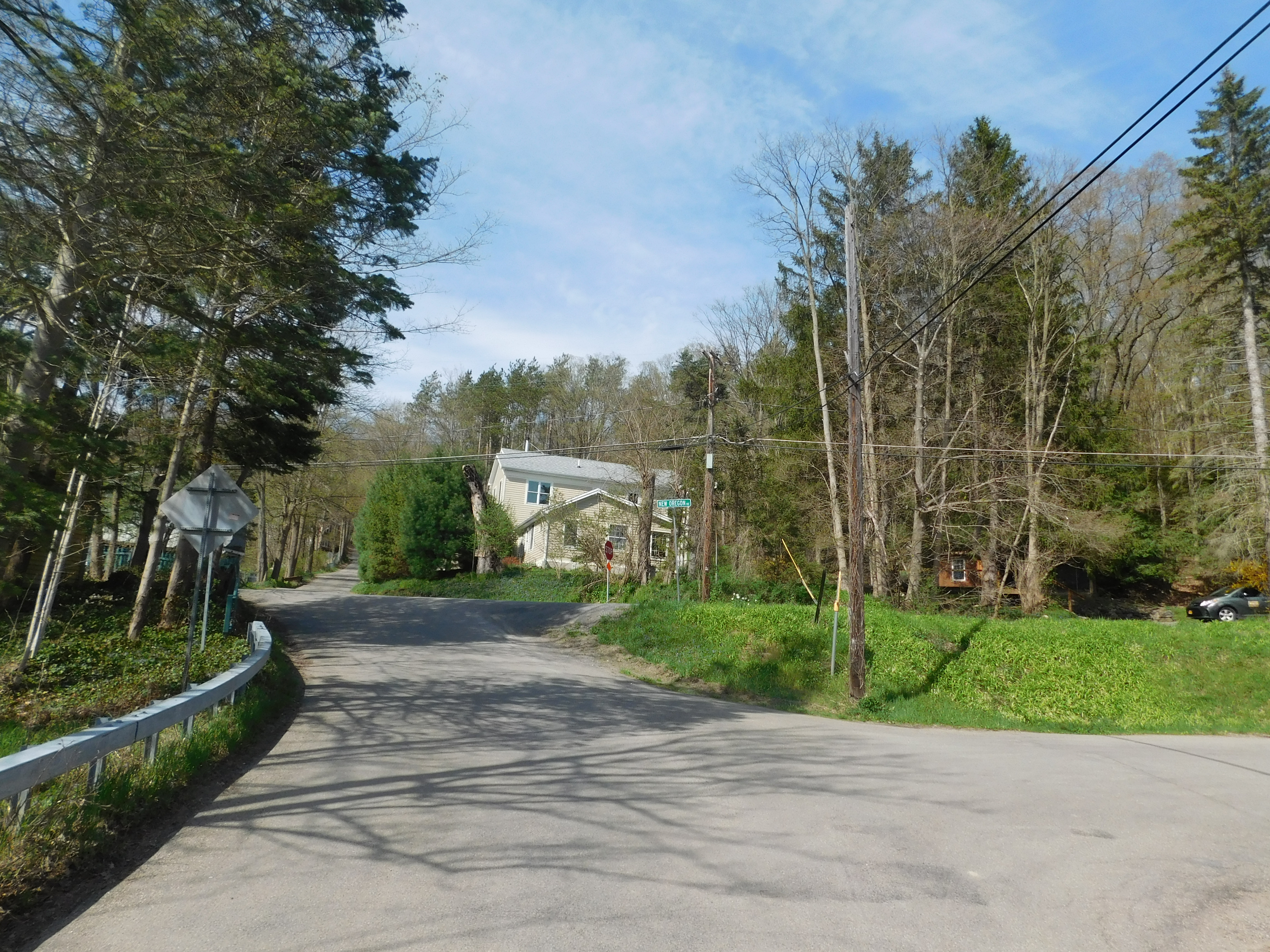 The Clarksburg Road Bridge in Clarksburg, New York.